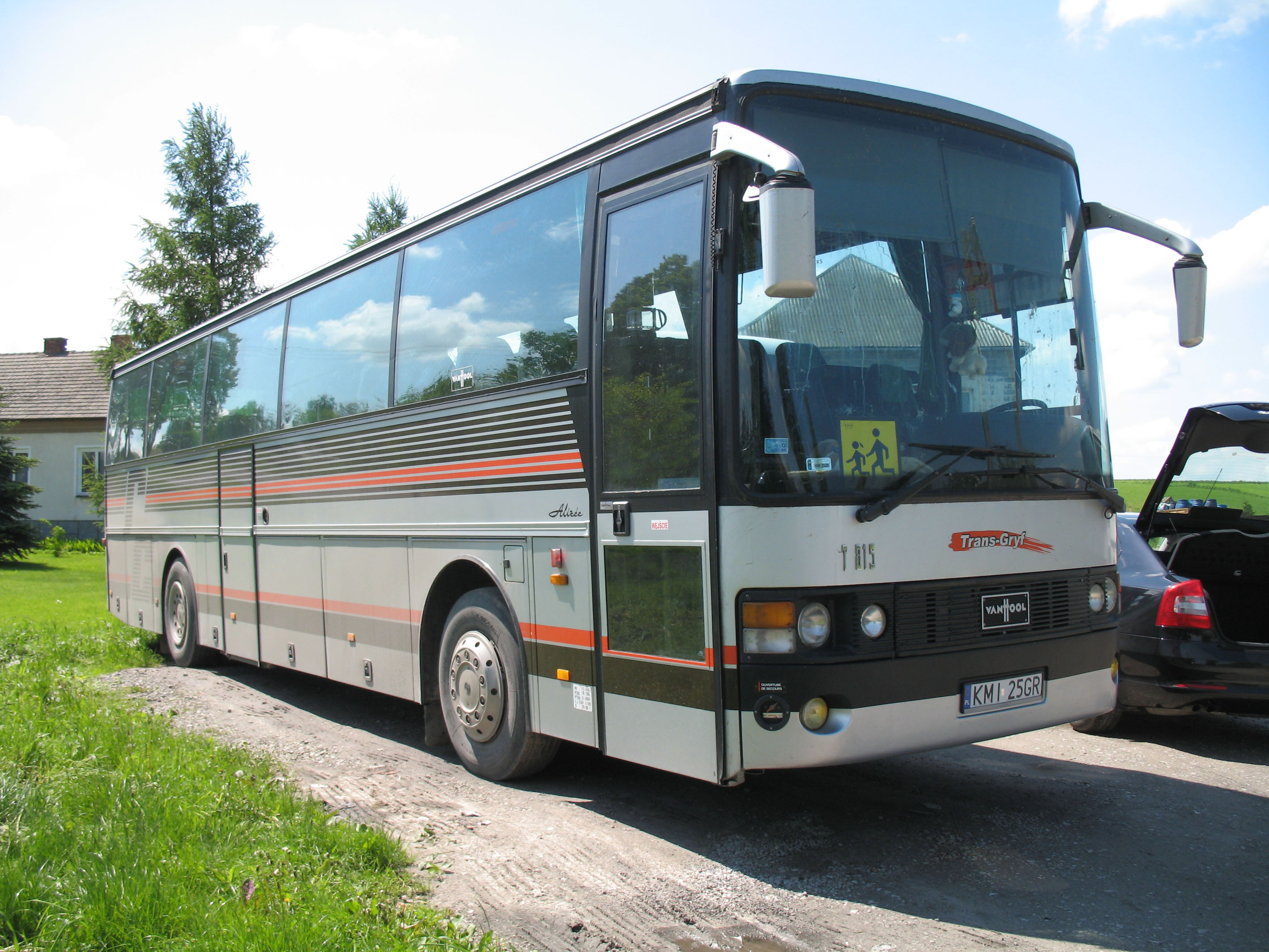 Van Hool T815 Alizée coach in Miechów, Poland. Trans-Gryf from Miechów operator.